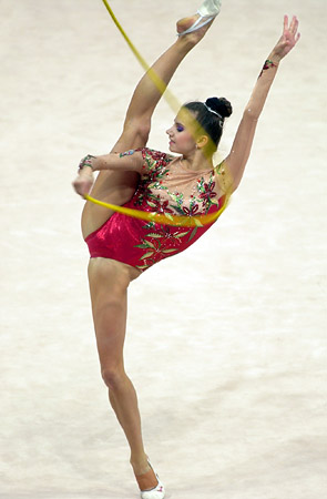 Photograph of Yulia Raskina of Belarus performing with rope on way to winning silver medal in rhythmic gymnastics at the 2000 Olympic Games on September 29, 2000 at Sydney, Australia. Photo taken by Tom Theobald and released into the public domain. Template:Yulia Raskina, Belarusian rhythmic gymnast, 2000 Olympic silver medalist, 2000 Sydney Olympic Games